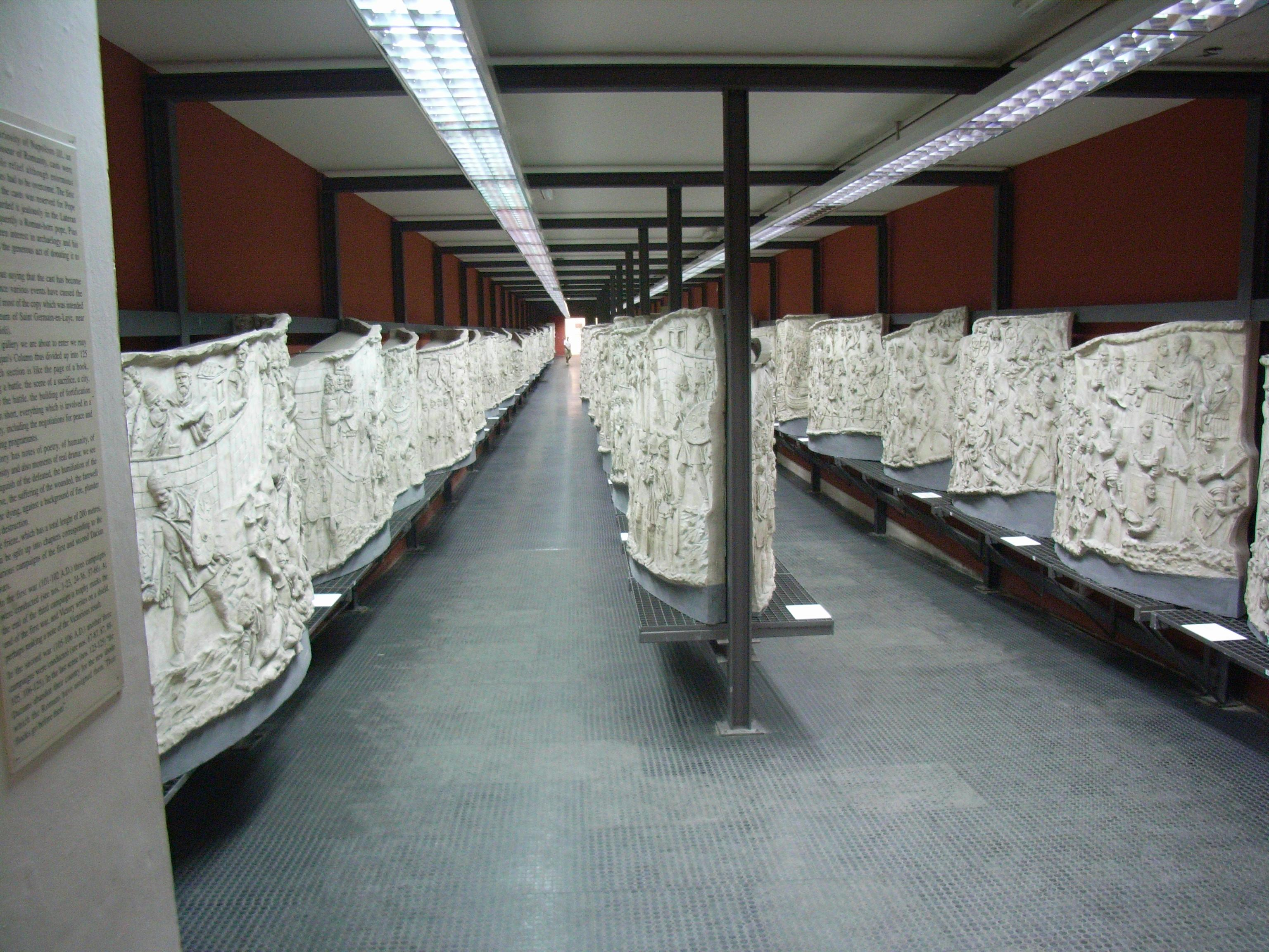 Trajans column cast Rome